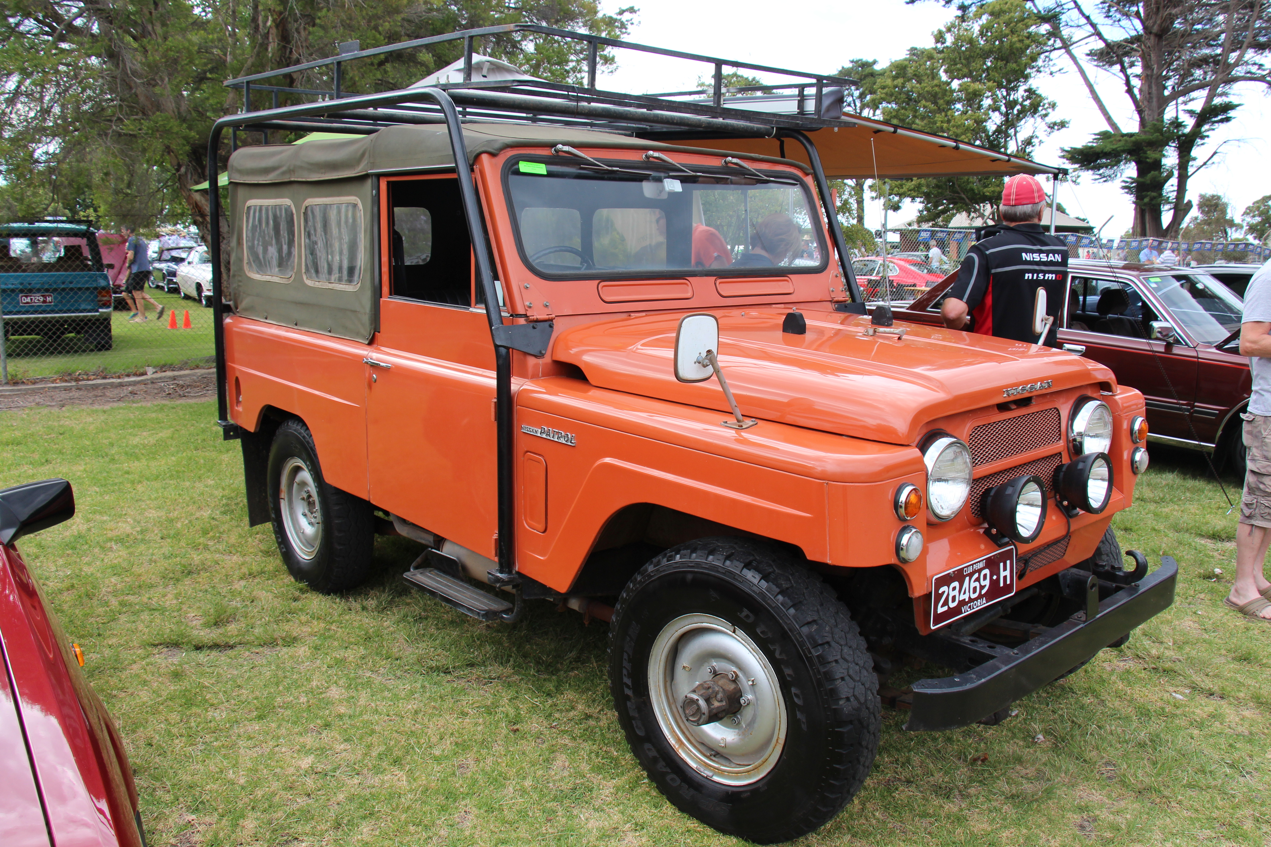 The 60 Series was the 2nd generation Patrol, built from 1960-1970. They were produced in short, medium and long wheel-base versions, soft and hard tops. The motor was the P engine, a 3,956 cc (241.4 cu in) inline overhead-valve six-cylinder Nissan Australia claim that the 60 series Patrol was the first vehicle to drive across the Simpson Desert in Australia